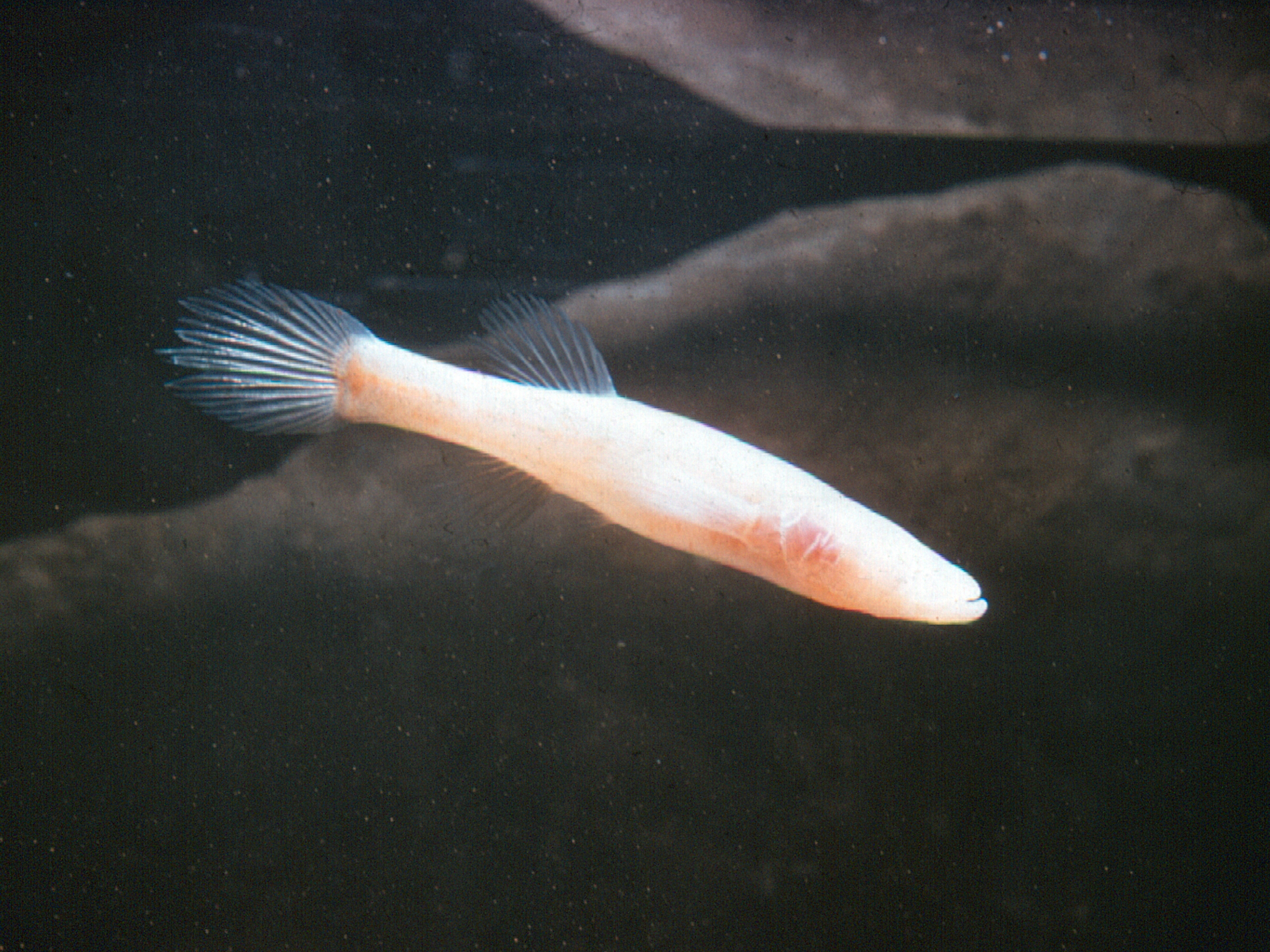 Location Mammoth Cave National Park Description Mammoth Cave National Park preserves the cave system and a part of the Green River valley and hilly country of south central Kentucky. This is the world's longest cave system, with more than 365 miles explored.